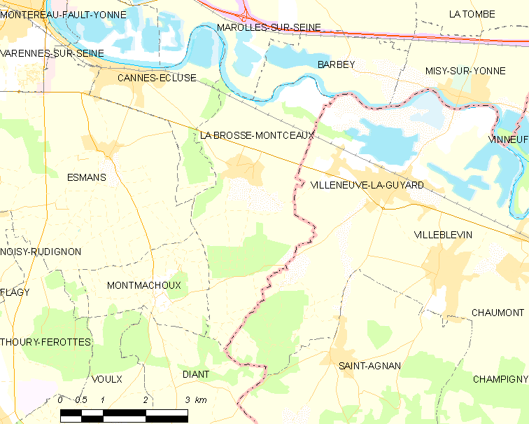 Map of French municipality La Brosse-Montceaux